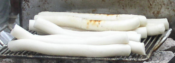 Garaettok, a variety of tteok (Korean rice cake). The picture is cropped for the relevant food.